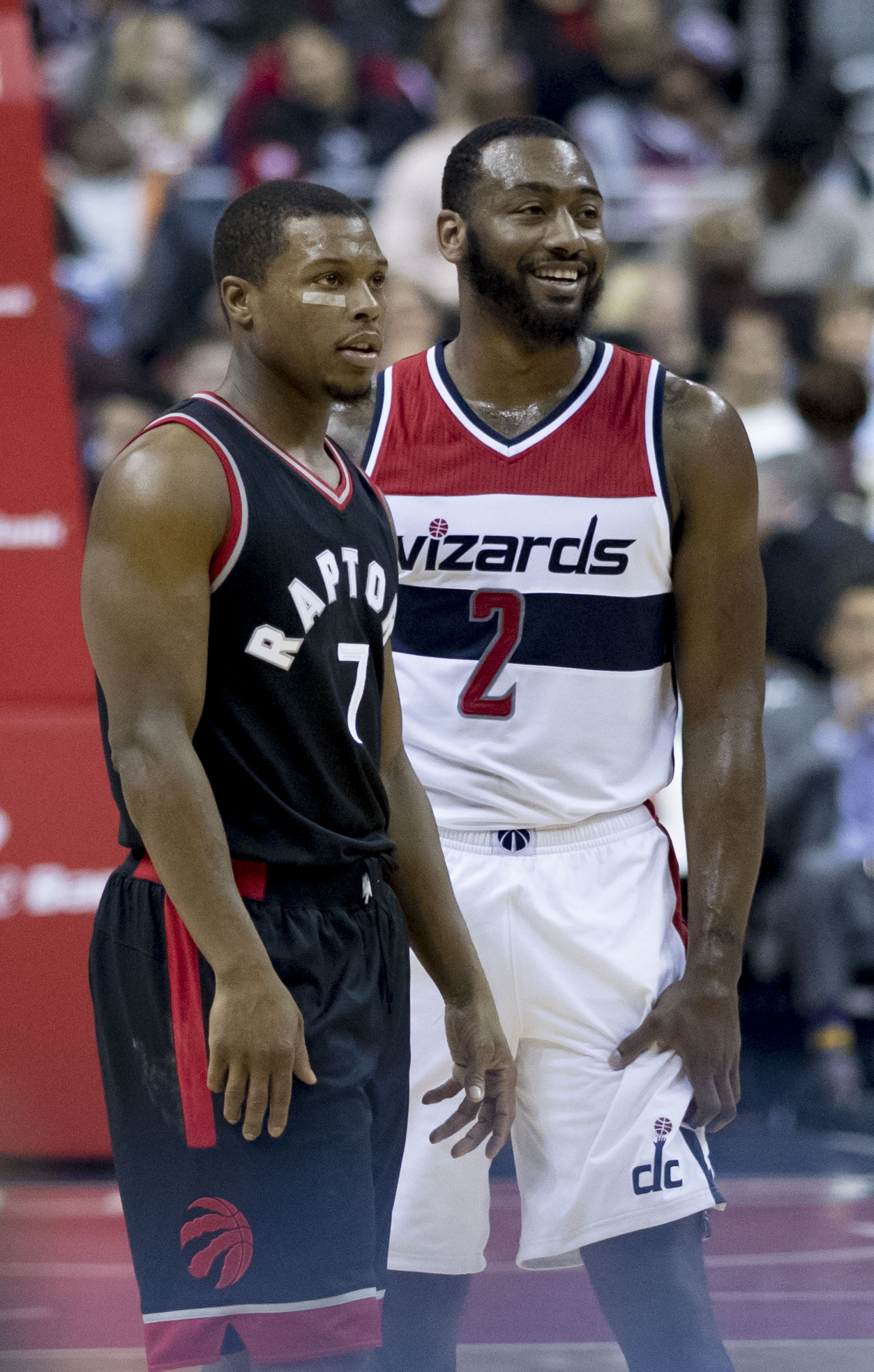 Kyle Lowry of the Toronto Raptors and John Wall of the Washington Wizards during a game at Verizon Center on November 2, 2016 in Washington, DC.